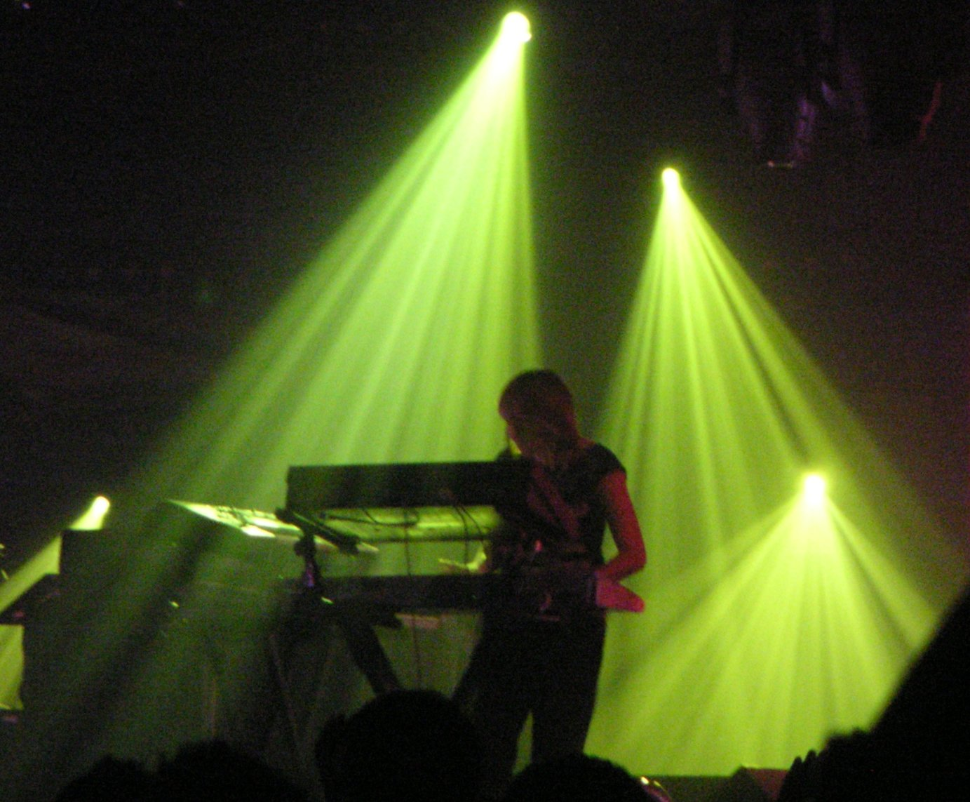 Sister Bliss on stage in Hull. Taken by myself at a Faithless gig. She seemed to be trying to take quite a backstage role & it was difficult to get a decent picture of her. Other images from the gig can be seen at my flickr site. MGSpiller 02:33, 23 April 2006 (UTC)